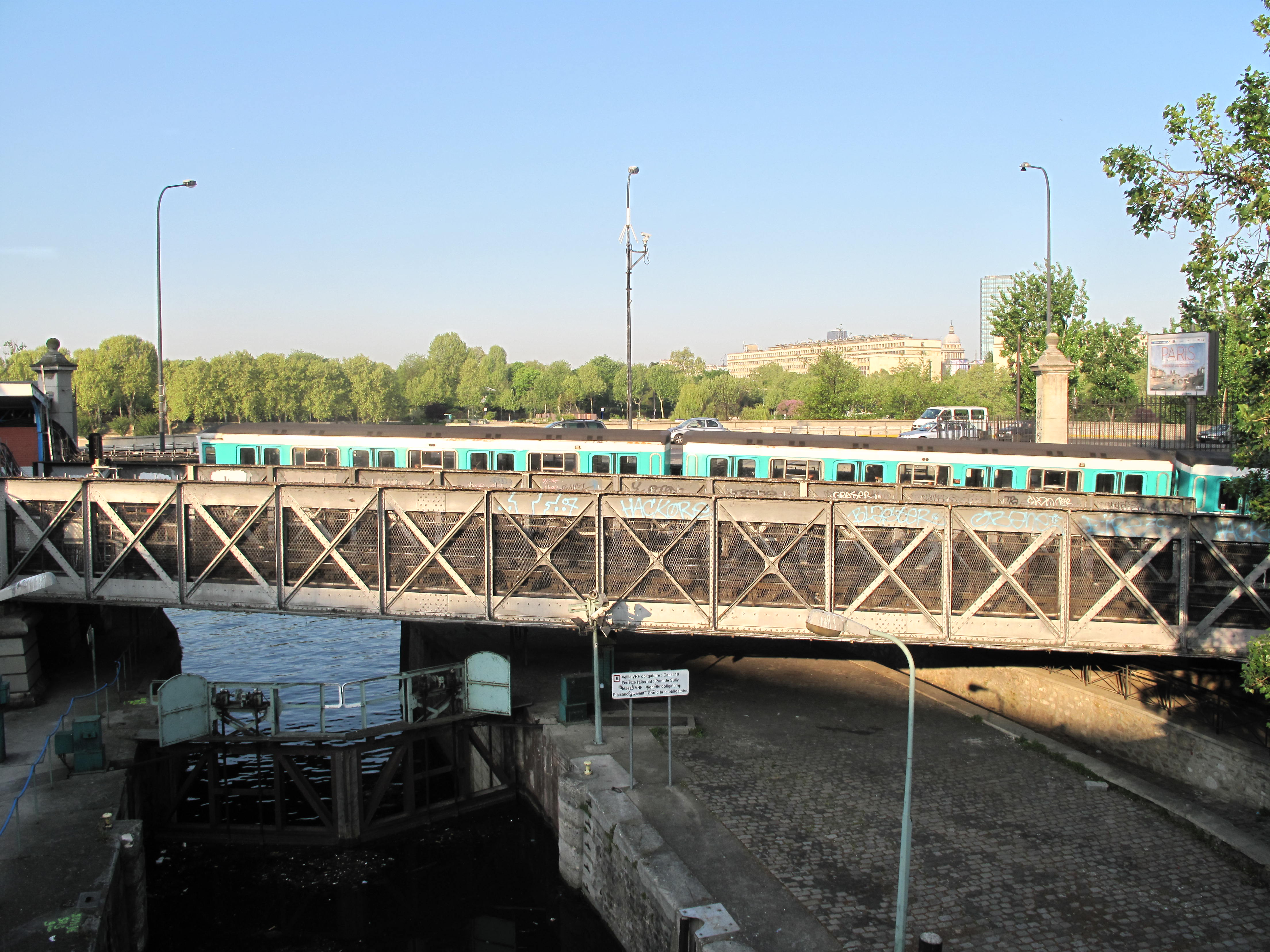 The metro on the pont de la Rapée, seen from the pont Morland. Beneath, a door of the canal lock between the river Seine and the bassin de l'Arsenal. Paris 4th arr.